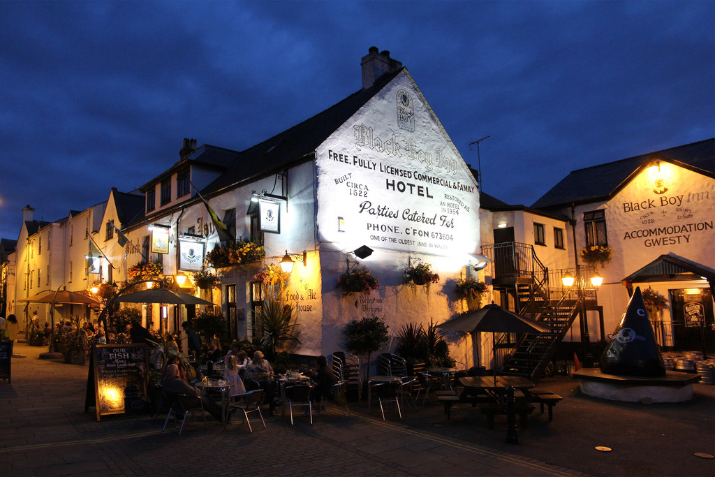 Black Boy Inn